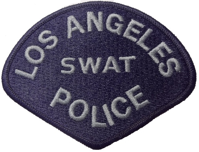 The shoulder patch of the Los Angeles Police Department Special Weapons And Tactics team (LAPD SWAT).